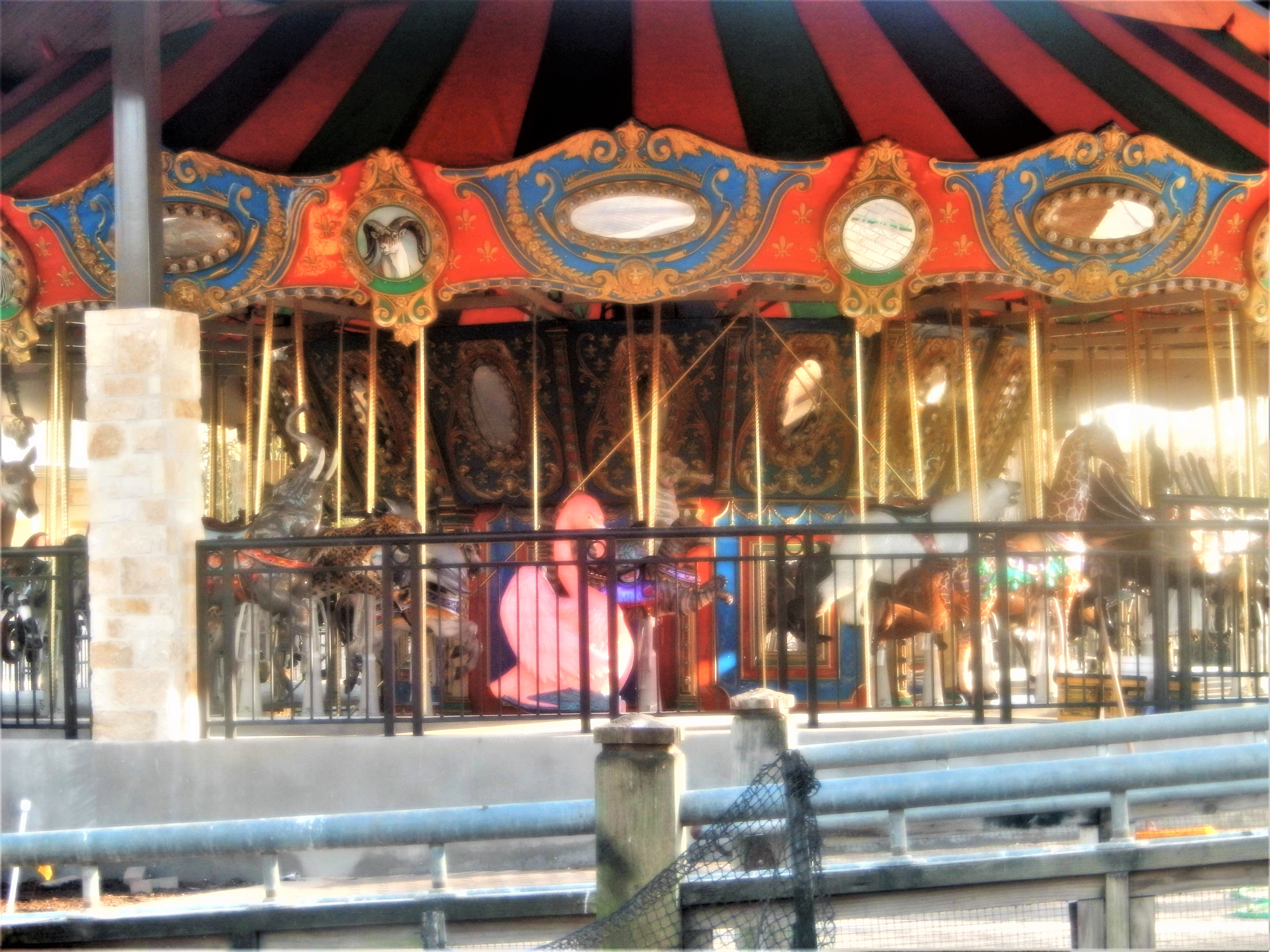 I took photo of Carousel at San Antonio Zoo, with Nikon camera.